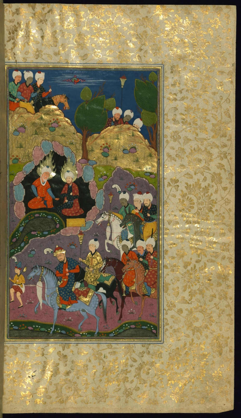 On this folio from Walters manuscript W.607, Alexander the Great (Iskandar) searches for the fountain of life and passes by a cave, before which sit the prophets Khidr and Ilyas.